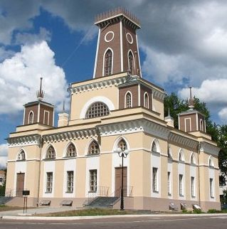 Czaczersk